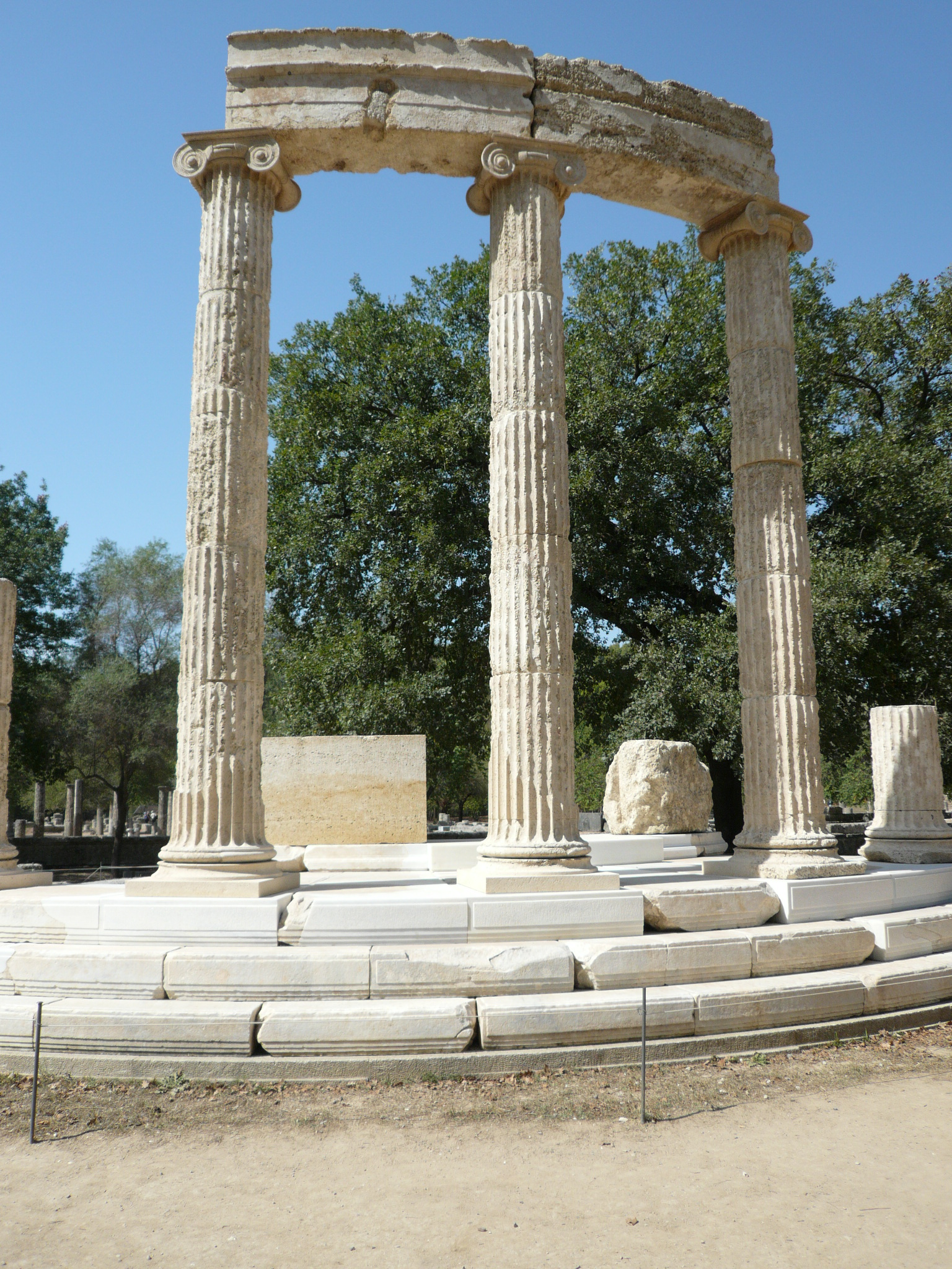 Archaeological Site of Olympia (Greece)